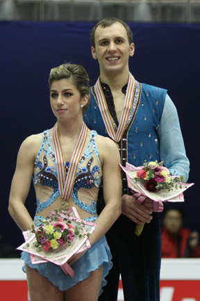 Brooke Castile & Benjamin Okolski during the pairs medals ceremony at the 2008 Four Continents Figure Skating Championships. They won the bronze medal at this competition.